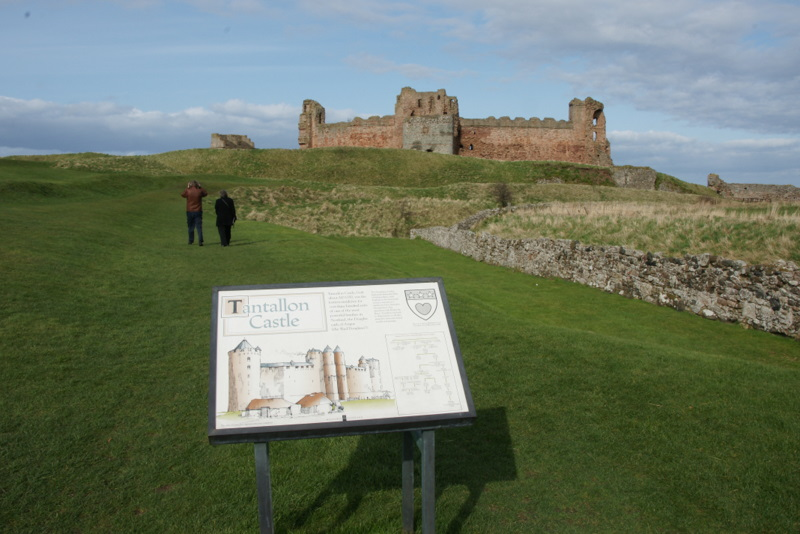 Sign at Tantallon Castle Interpretative sign outside the visitor centre.